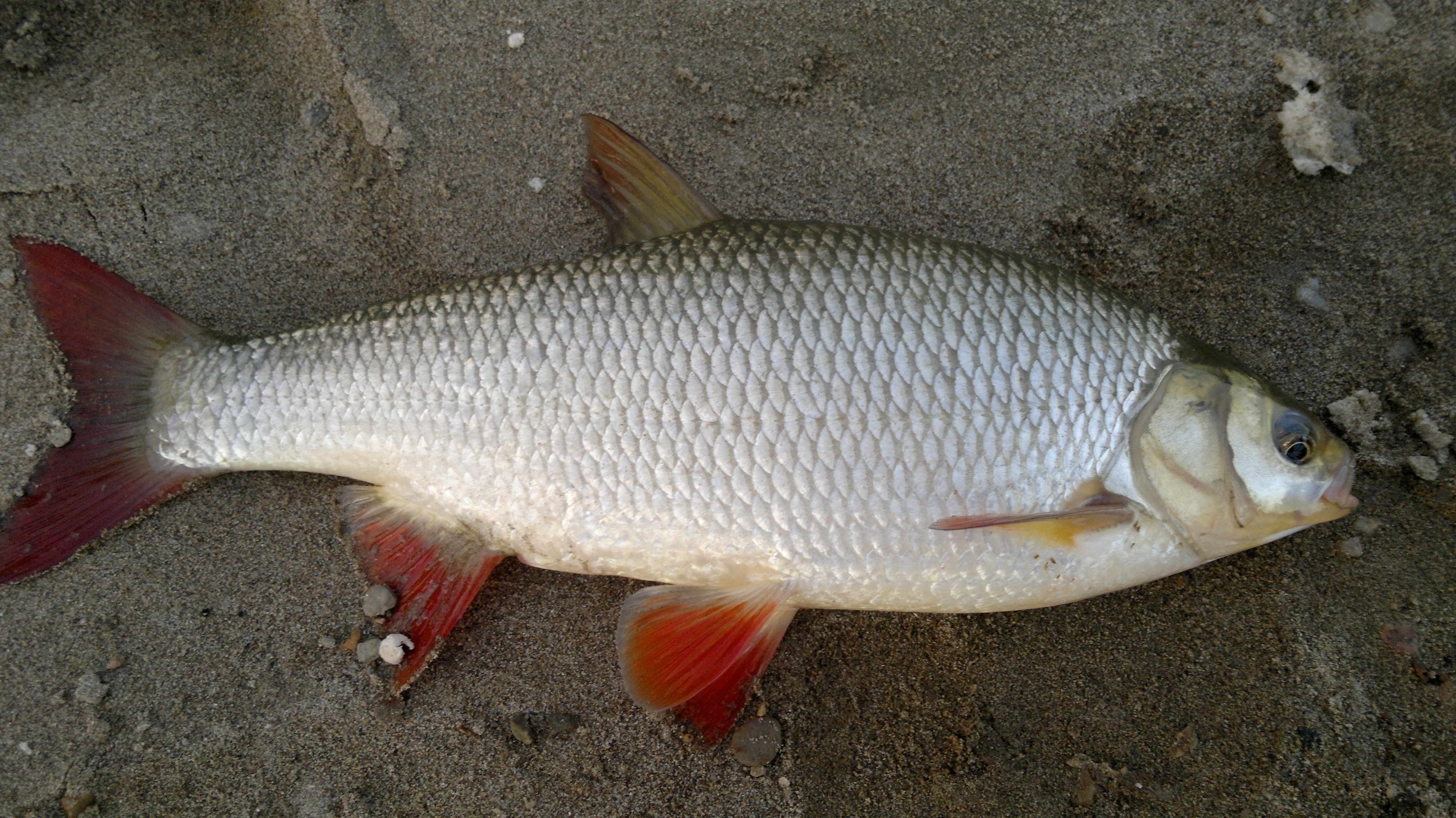 Leuciscus idus, Danube, Vidin, Bulgaria